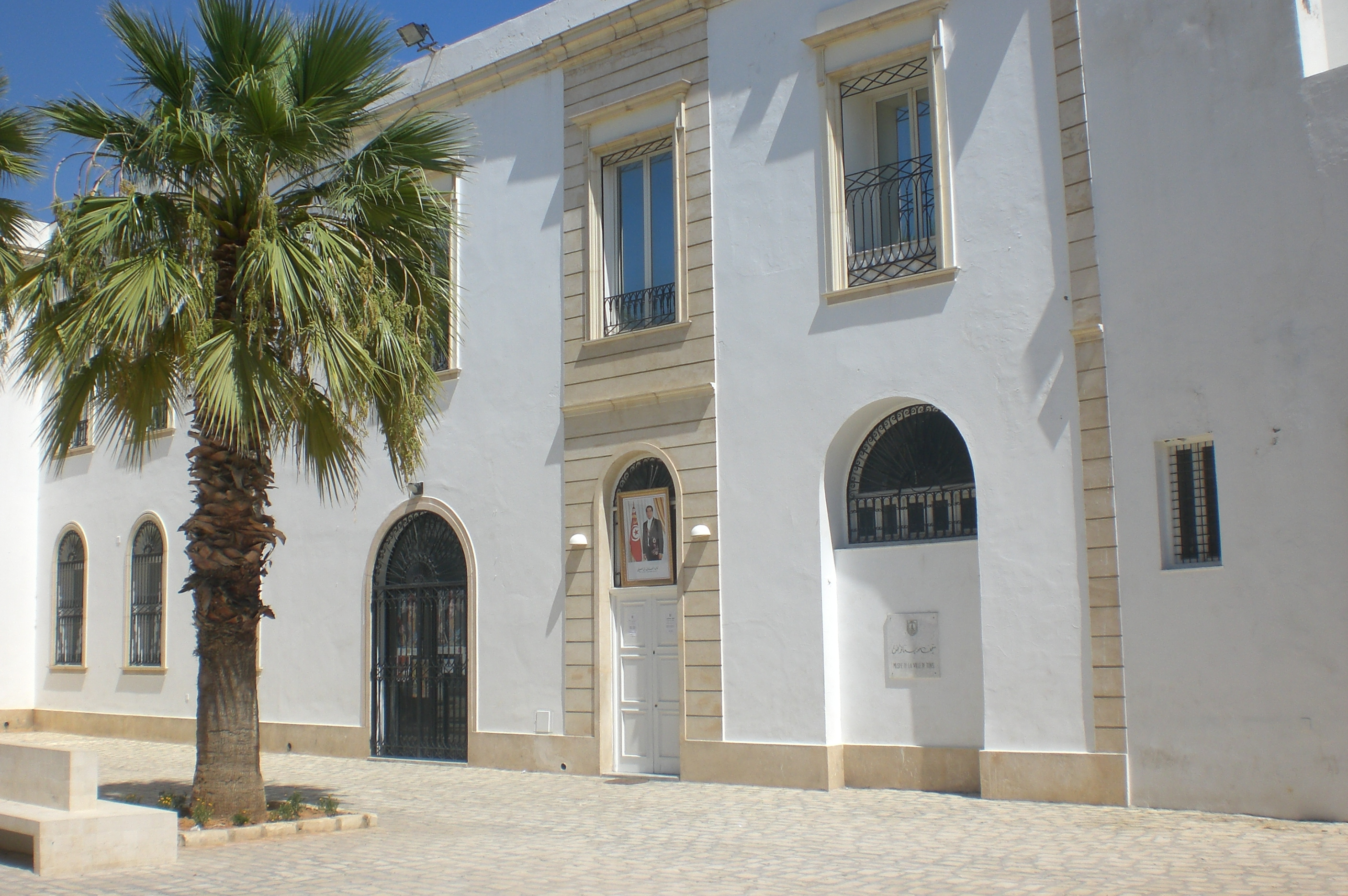 The Museum of Medina of Tunis